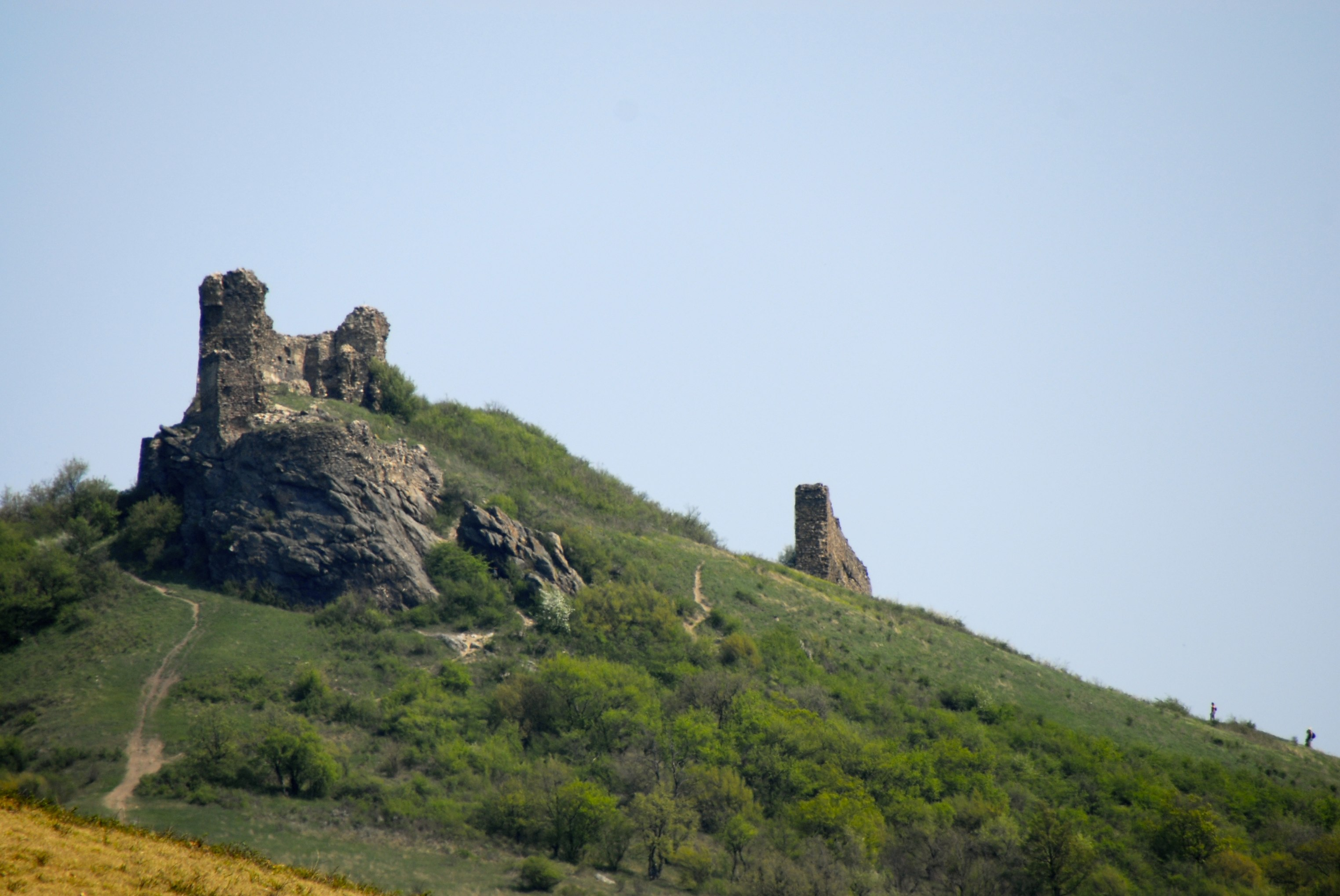 ruins of the Șiria (Világos) castle in Arad County, Romania